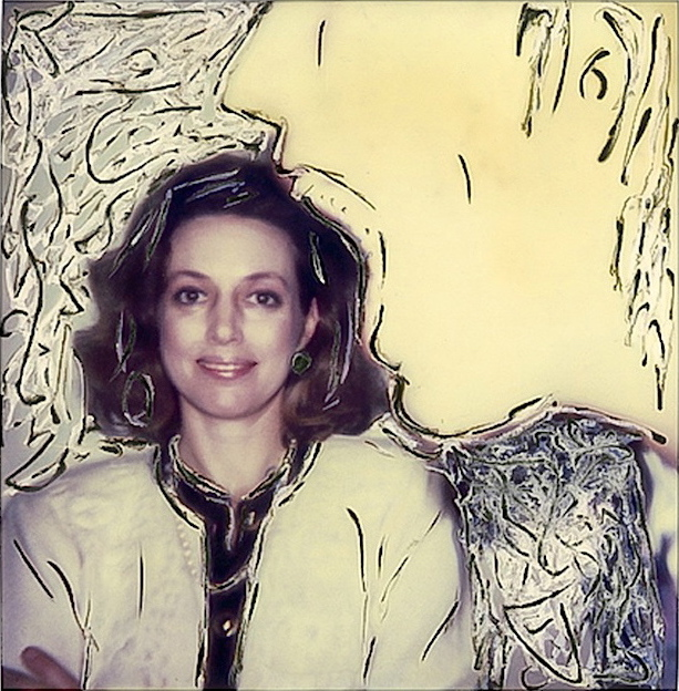 Portrait: Antonella Boralevi - polaroid sx70 (with manipulation) by Augusto De Luca photographer.